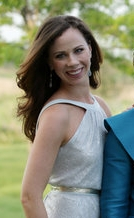 President George W. Bush and Mrs.Laura Bush pose with daughters Jenna and Barbara Saturday, May 10, 2008, at Prairie Chapel Ranch in Crawford, Texas, prior to the wedding of Jenna and Henry Hager. White House photo by Shealah Craighead